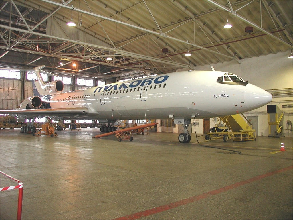 Pulkovo maintenance hangar at LED